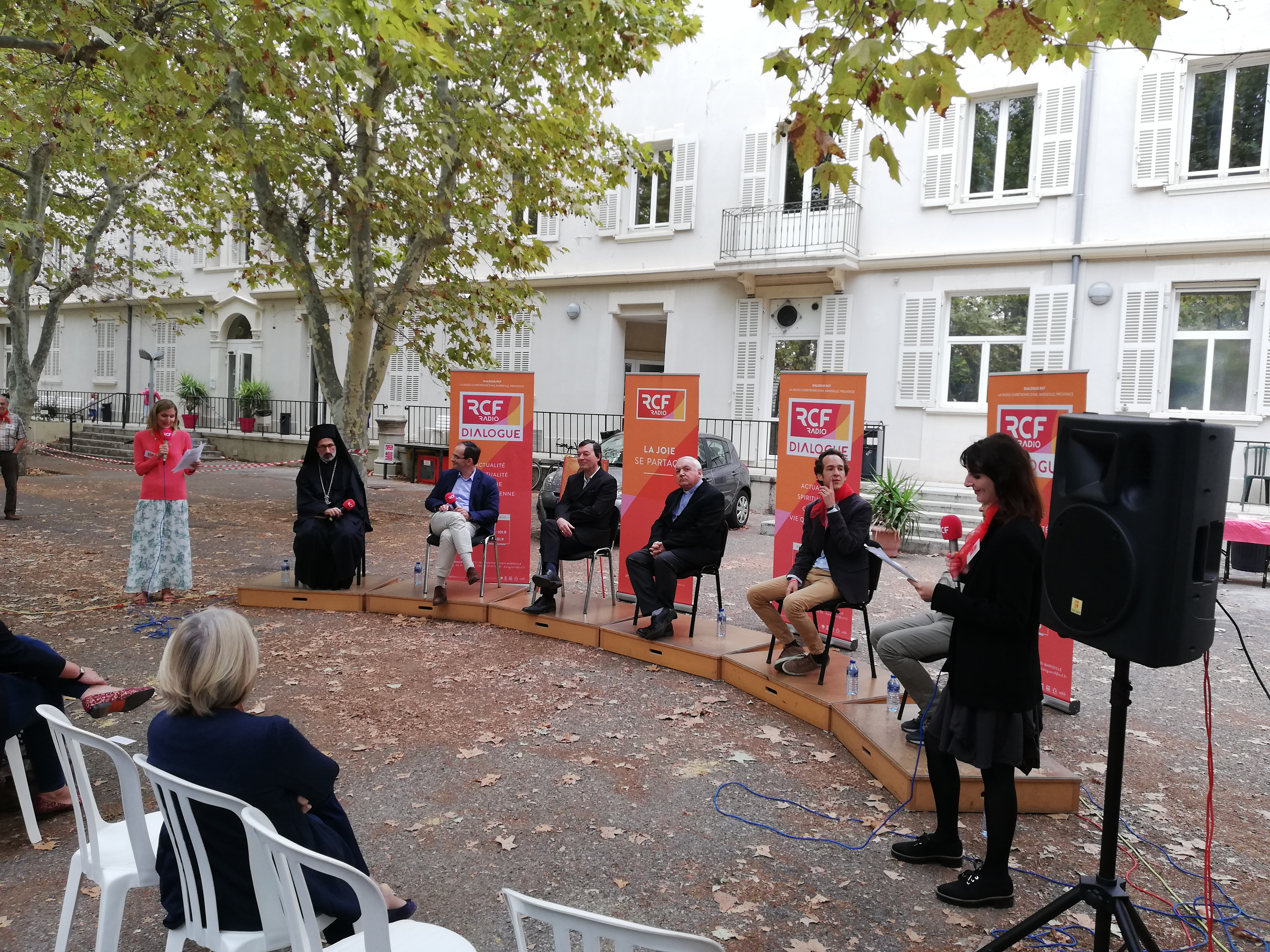 Snapshot of an outdoor radio show in the courtyard of the Center le Mistral, Marseille (October 12, 2019).